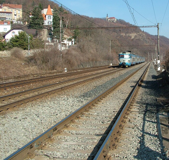 A section with two parallel double railway tracks on 170/171 line near Velká Chuchle in Prague, Czech Republic could be mistaken for a quadruple railway track. An older electric multiple unit of 451 series going from Prague to Beroun.